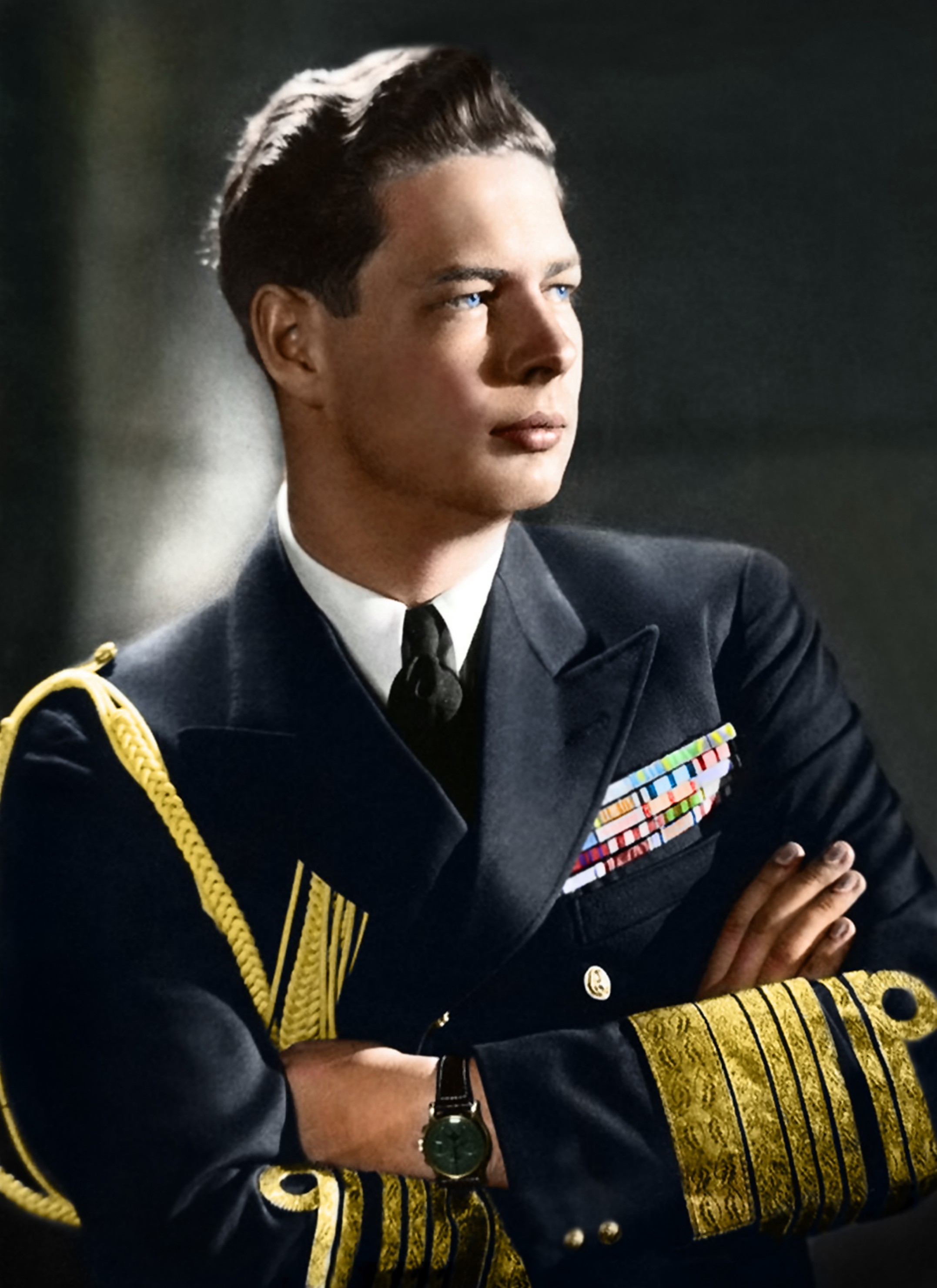 a derivative of File:Mihai.jpg